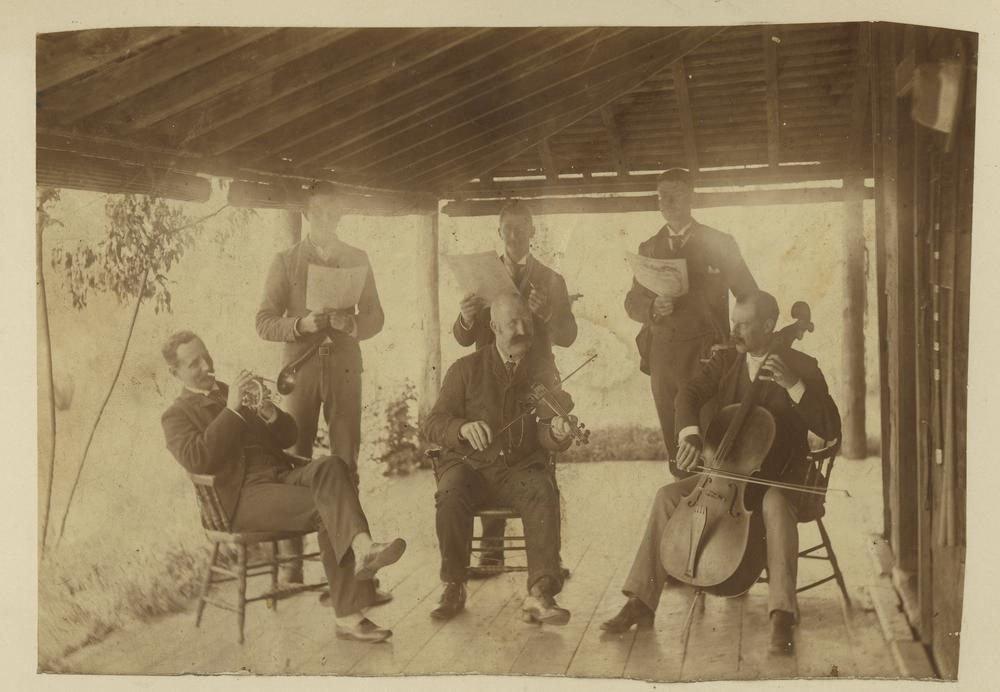 Creator: Unidentified Location: Queensland, Australia Description: Sextet of a cellist, violinist, horn-player and three vocalists making music. View this image at the State Library of Queensland: Information about State Library of Queensland’s collection: You are free to use this image without permission. Please attribute State Library of Queensland.